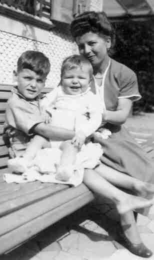 Maria Stader on the Rigi-Klösterli, Hotel Sonne with her godchild and Martin, one of her two sons.